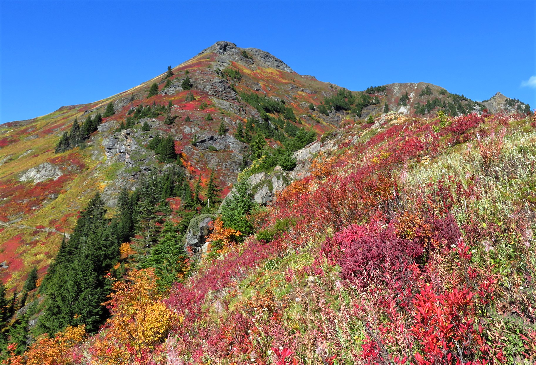 Yellow Aster Butte at Mount Baker Wilderness in Washington (crop of original file)